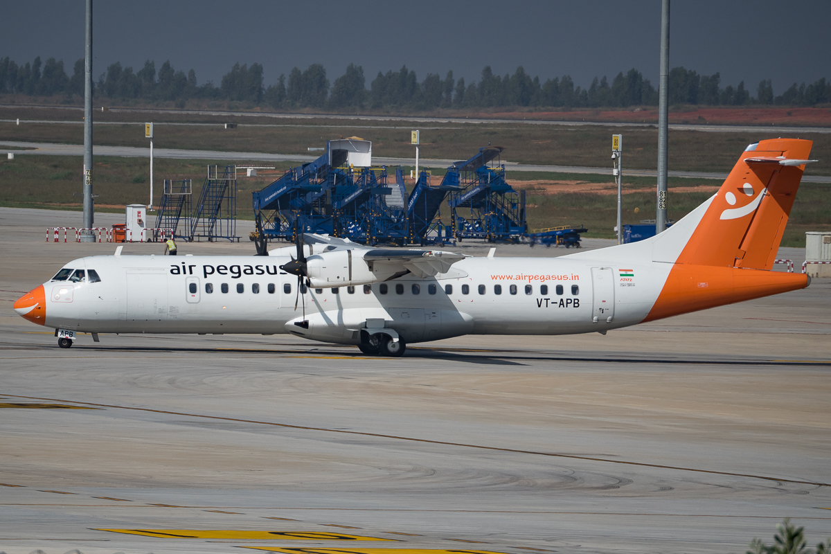 Air Pegasus ATR 72-500 registered VT-APB at Kempegowda Intl Airport Bangalore